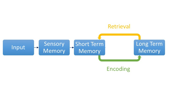 process of encoding and retrieval in long term memory